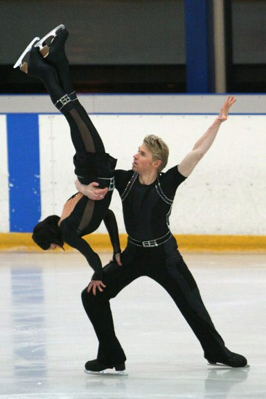 Isabelle Delobel & Olivier Schoenfelder perform a lift in practice at the 2007 European Figure Skating Championships.